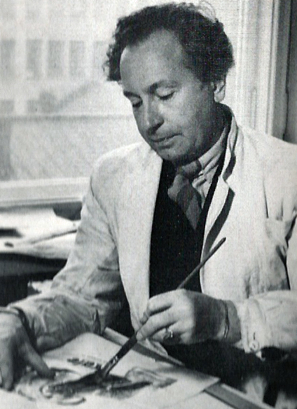 Finnish artist Elis Muona (1900–1976) working at ad agency Erva-Latvala.